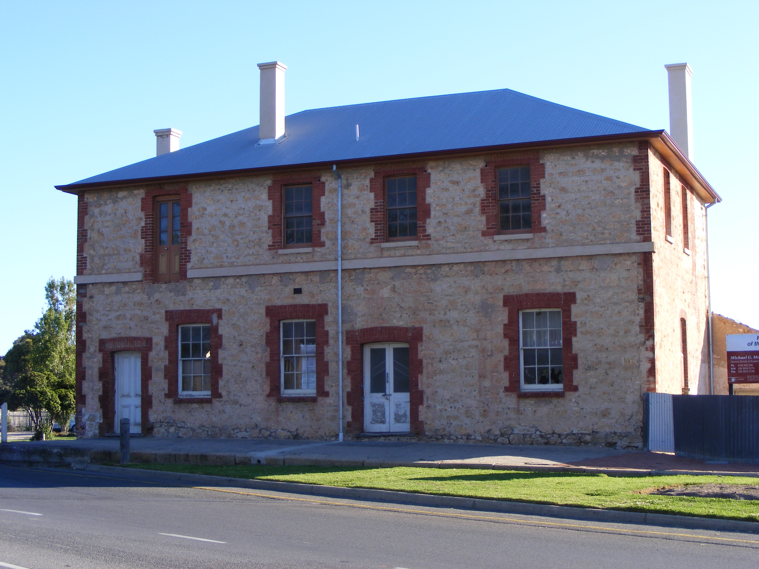 19th Century building, indicative of the style in the town. End of the main street, Goolwa, South Australia